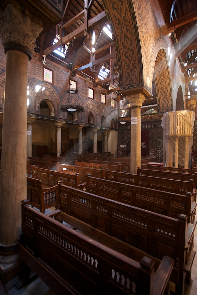 The main inside area of The Hanging Church.